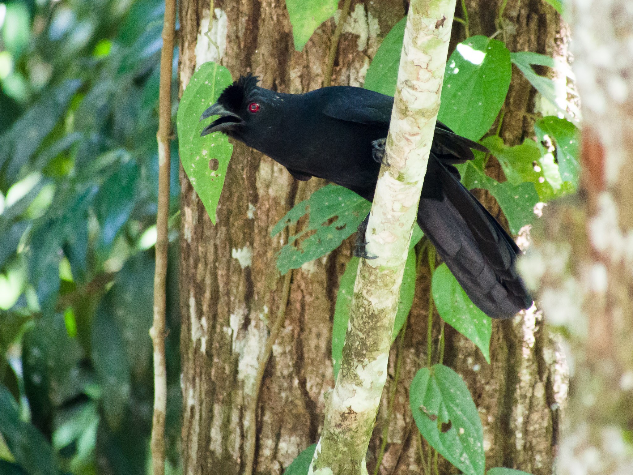 (Bornean) Black Magpie